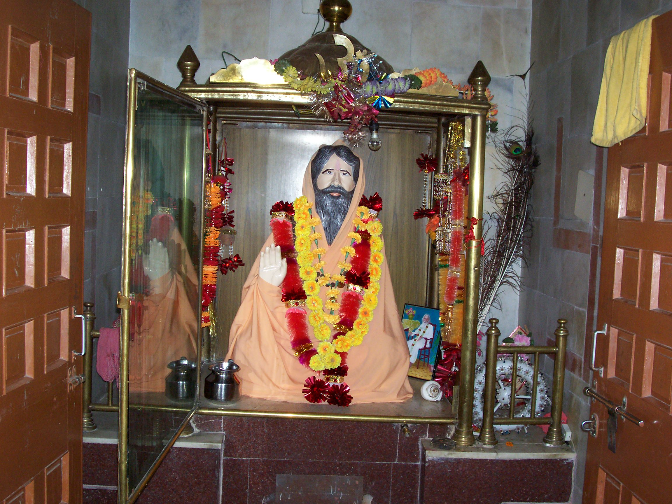 This is Idol of Swami Sarvanand Giri. Punjab University Regional Campus, Hoshiarpur is under his name. Dr. Lajpat Rai Munger who donated this college to Punjab University is disciple of Swami